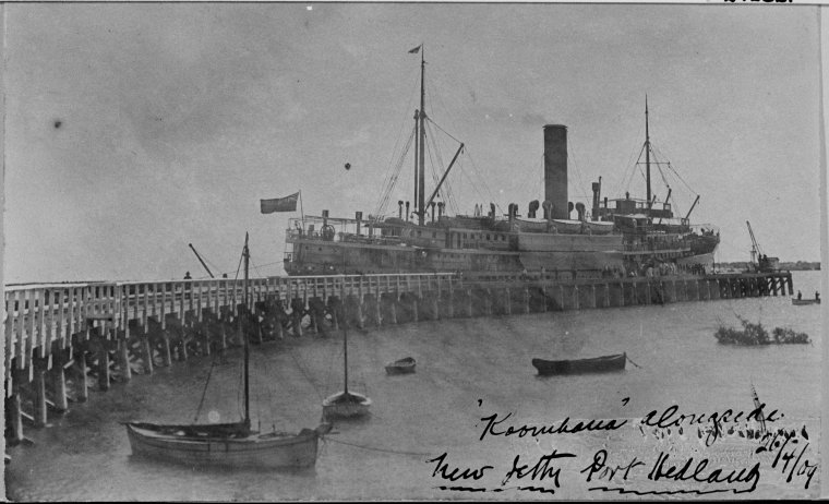 SS Koombana alongside the new jetty at Port Hedland, Western Australia.